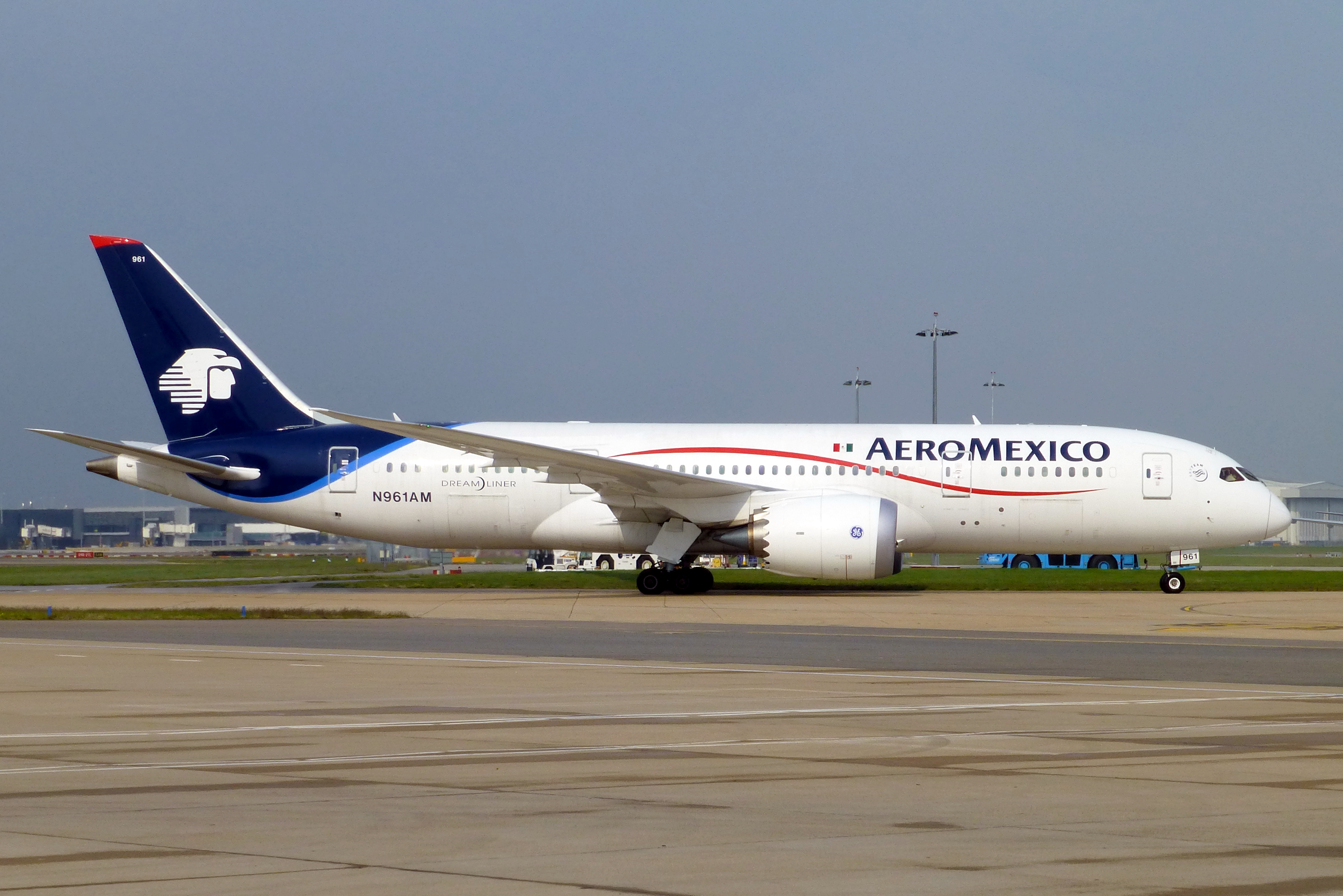 N961AM Boeing 787 Dreamliner AeroMexico heading to std 407 after its drenching.